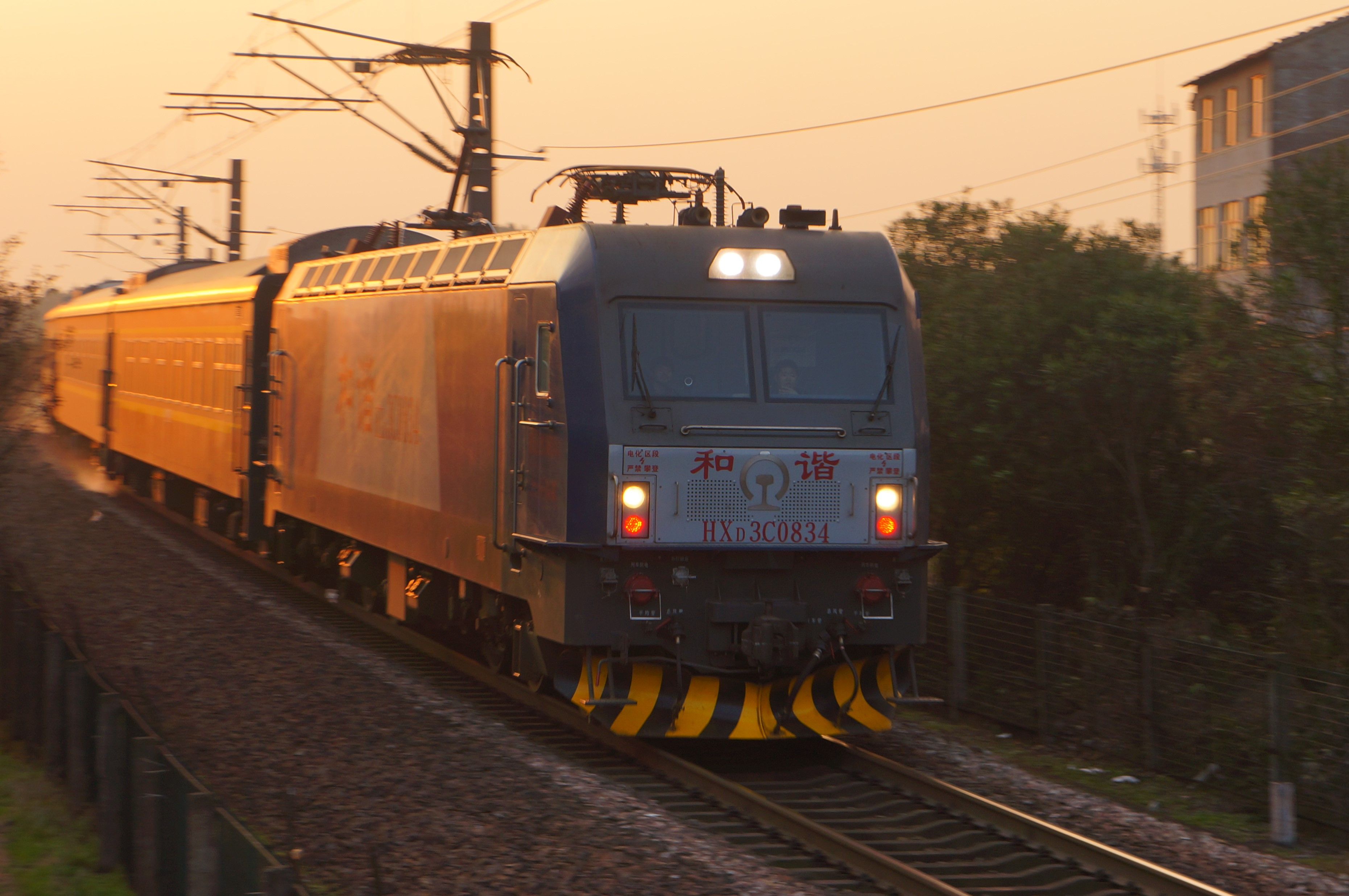 Somewhere between Jinhuadong and Dongxiao.